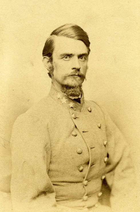 Carte-de-Visite of John Bullock Clark, Jr., by J. A. Scholten, St. Louis, Mo. Wilson’s Creek National Battlefield; WICR 31453